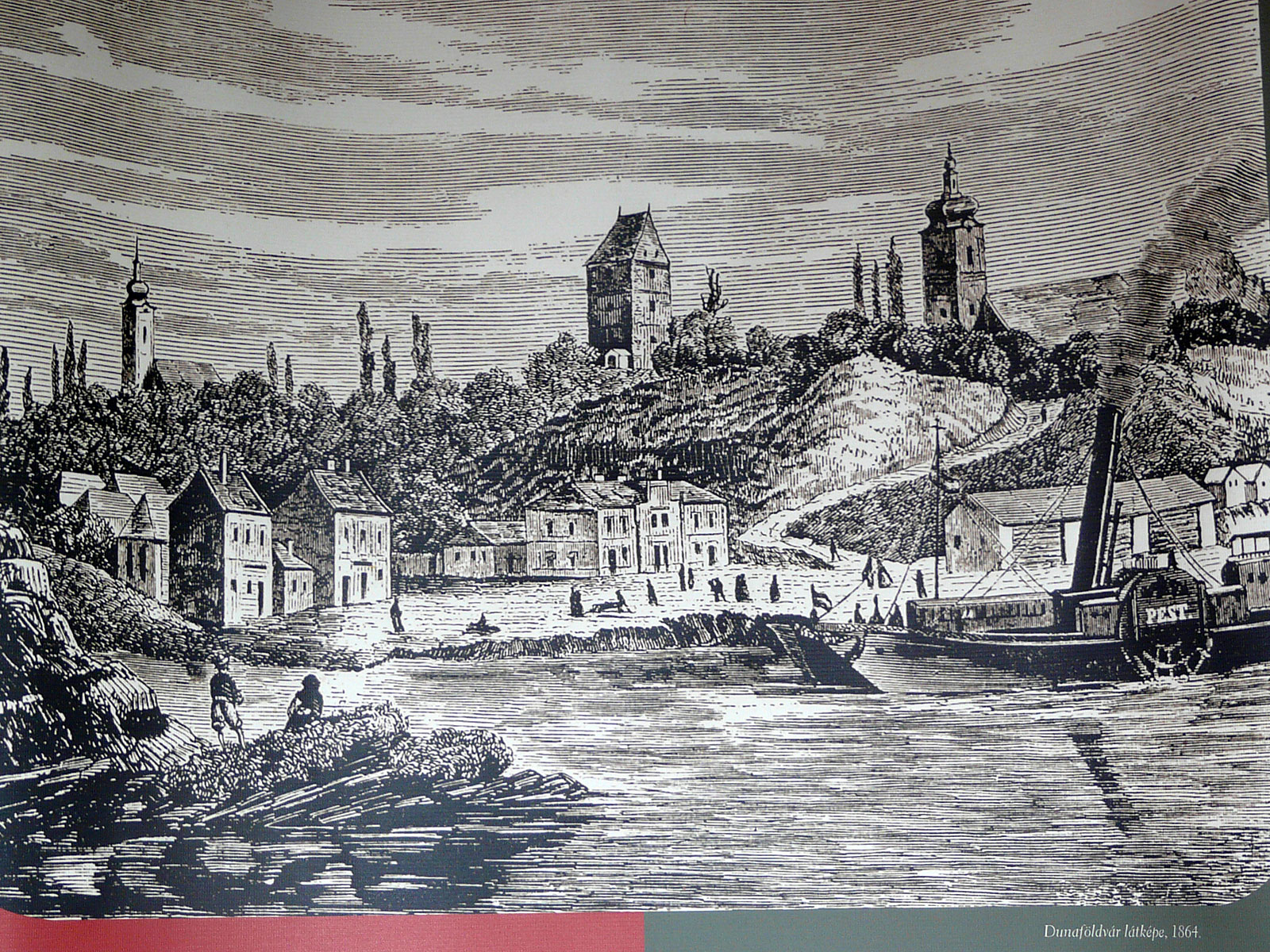 The old Dunaföldvár (1864)